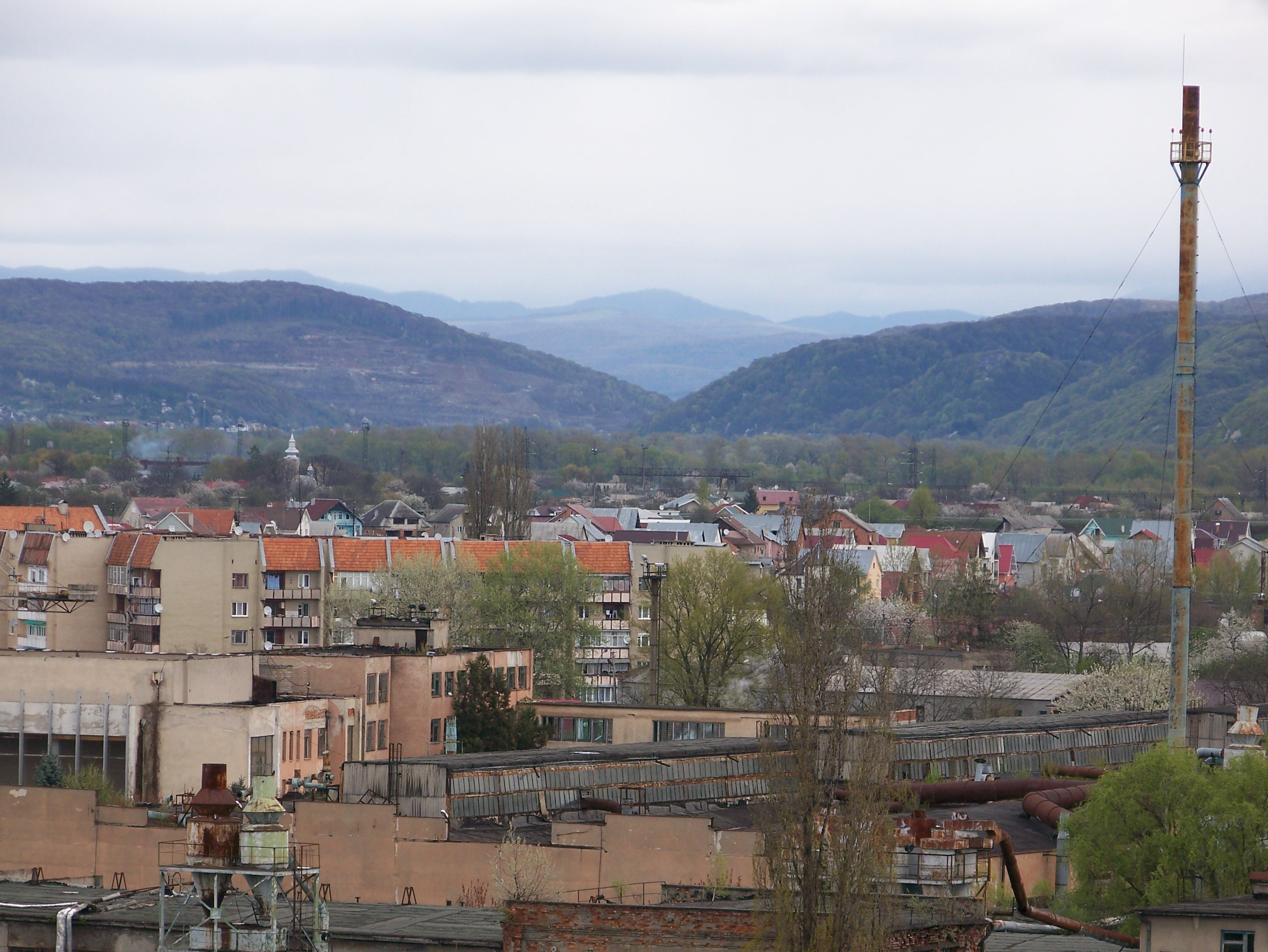 John McLaughlin, Uzhhorod, Ukraine, April 2008